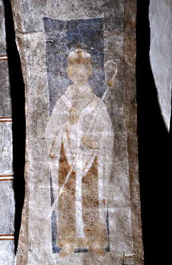 Archbishop Absalon in Stehag church in Scania Sweden